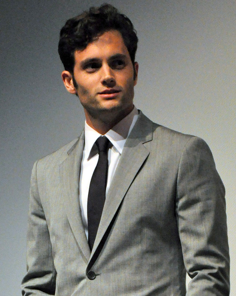 Penn Badgley at the screening of "Easy A" at the 2010 Toronto International Film Festival. (Photo taken September 11, 2010.)